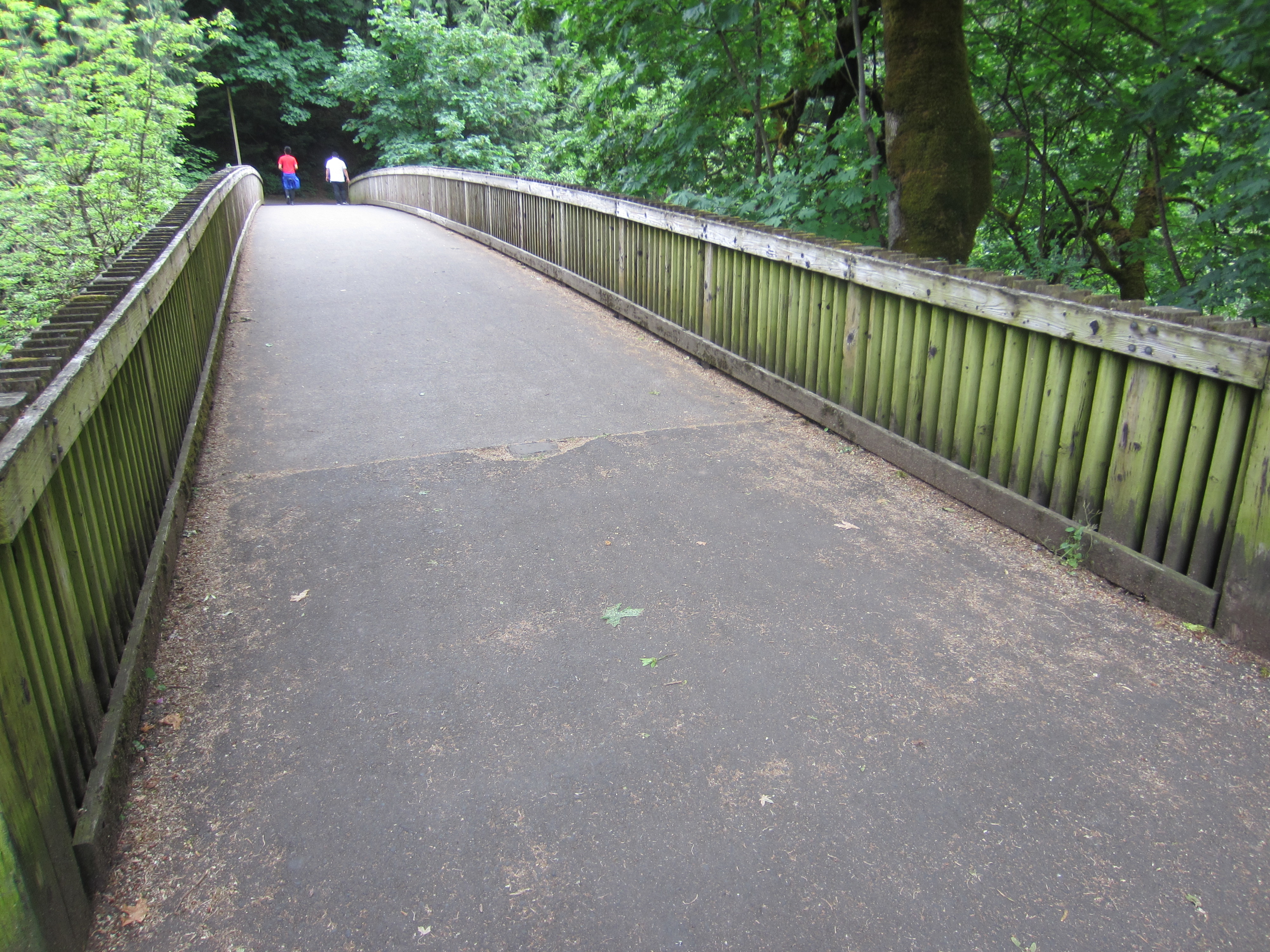 Lake Oswego, Oregon (2018)